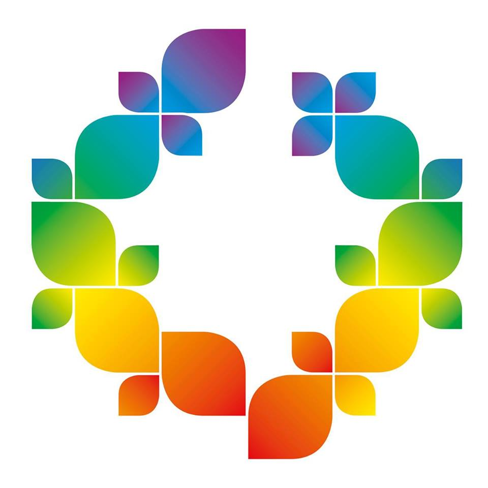 Logo of Split Pride of Croatia